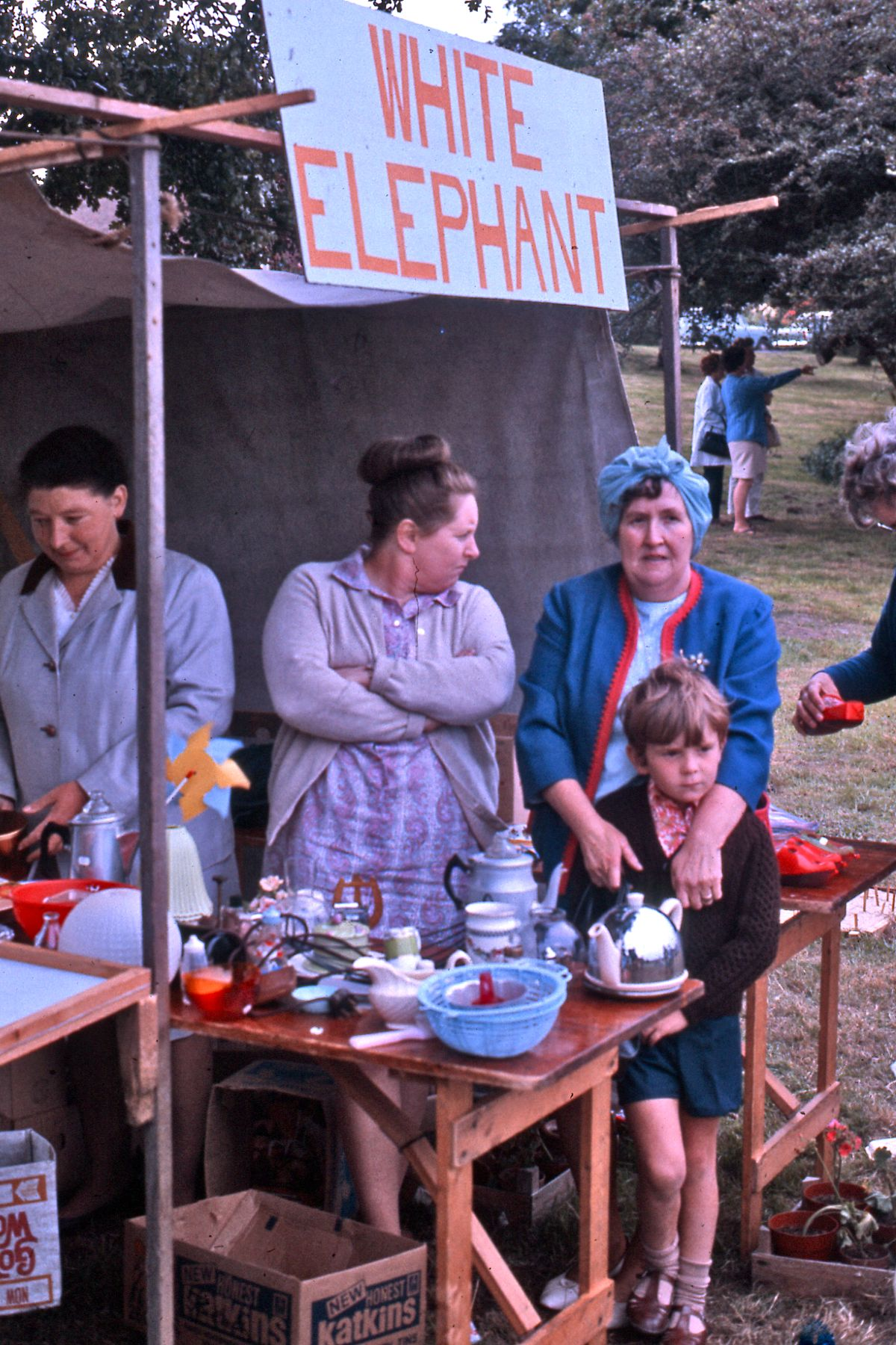 Three women and a child in a booth at an English country fair, standing beneath a sign reading "WHITE ELEPHANT." White Elephant Sale Other information Photo by George Garrigues.